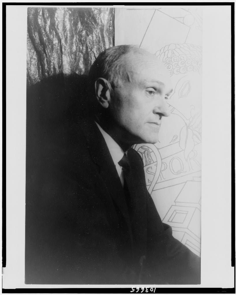 Portrait of Philip Johnson